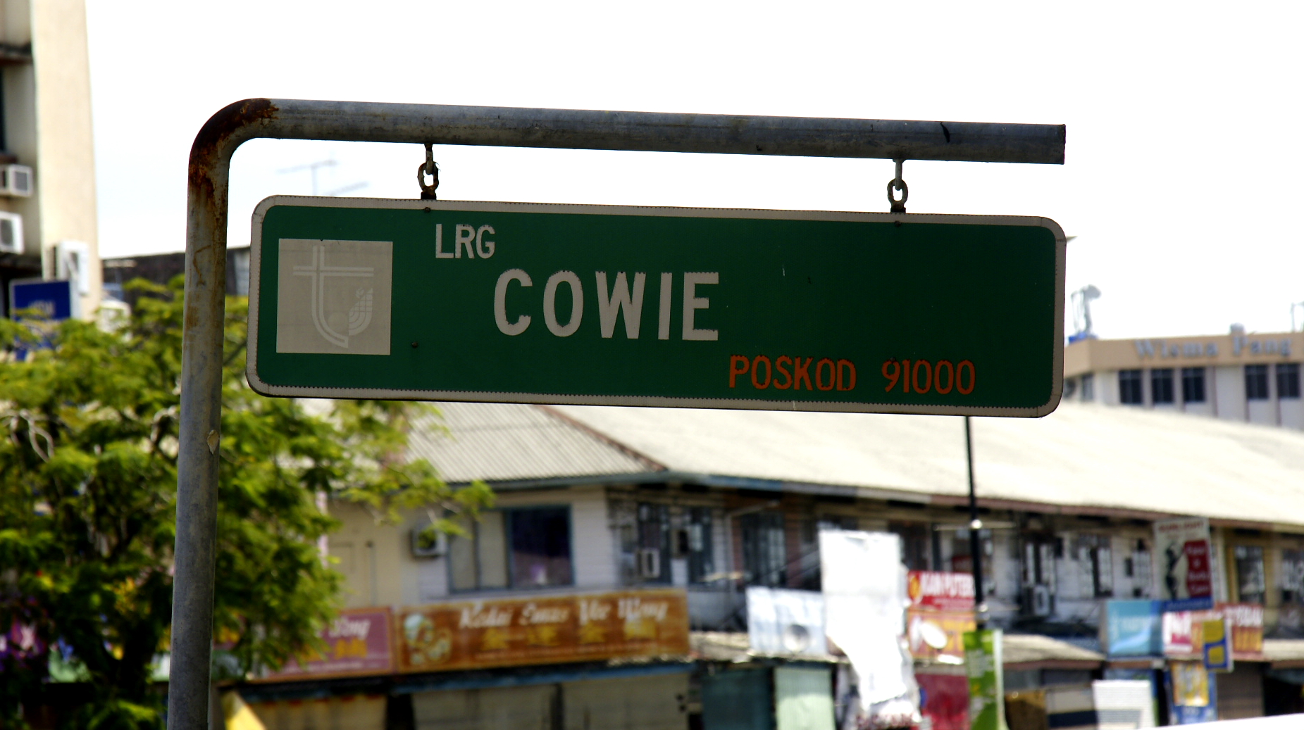 Tawau, Sabah: Cowie Lane near the harbour site